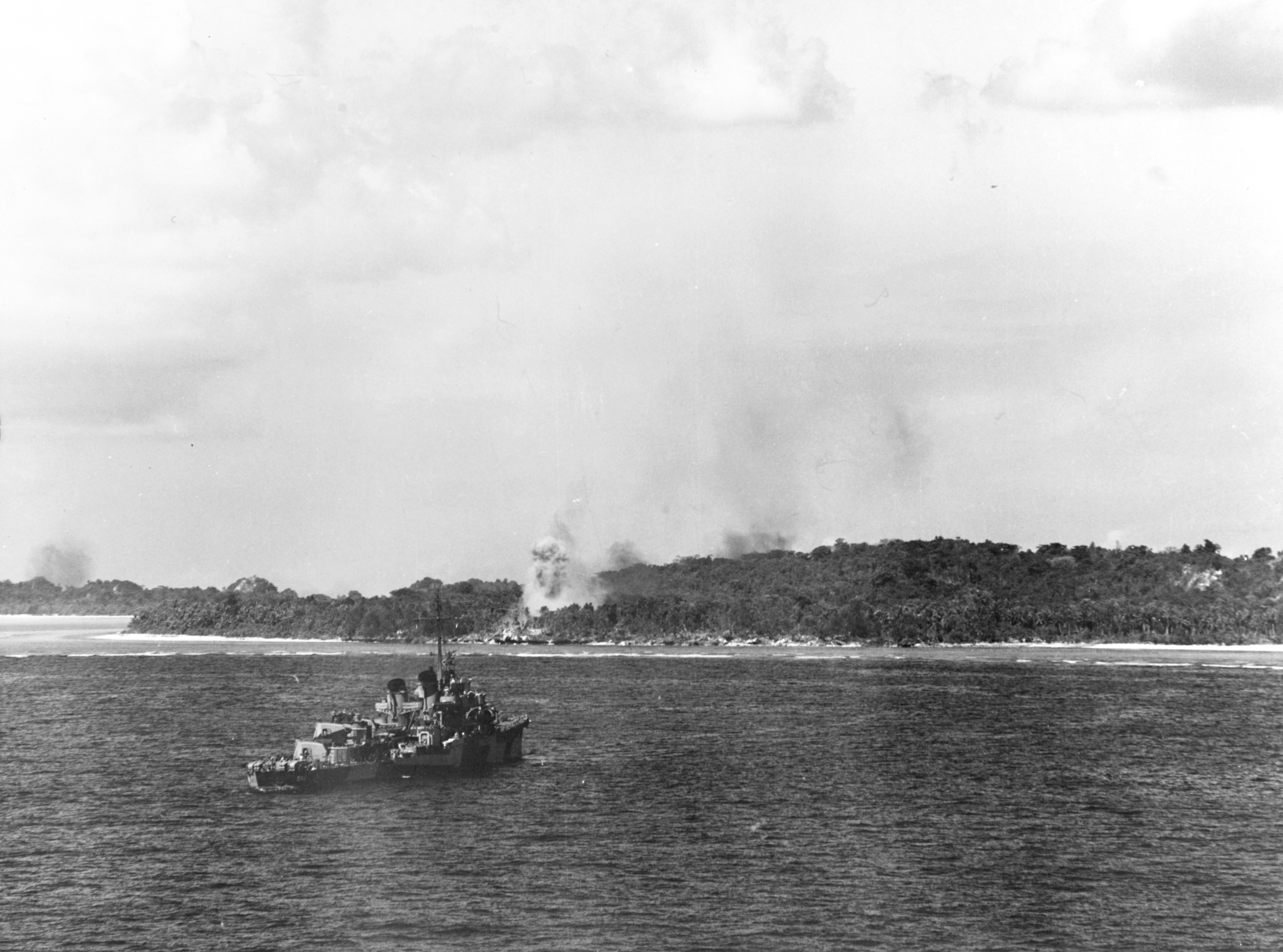 Peleliu Invasion, September 1944: The U.S. Navy destroyer USS Robinson (DD-562) fires 40 mm guns to cover underwater demolition team men clearing beach obstacles in mid-September 1944, prior to landings by the First Marine Division.